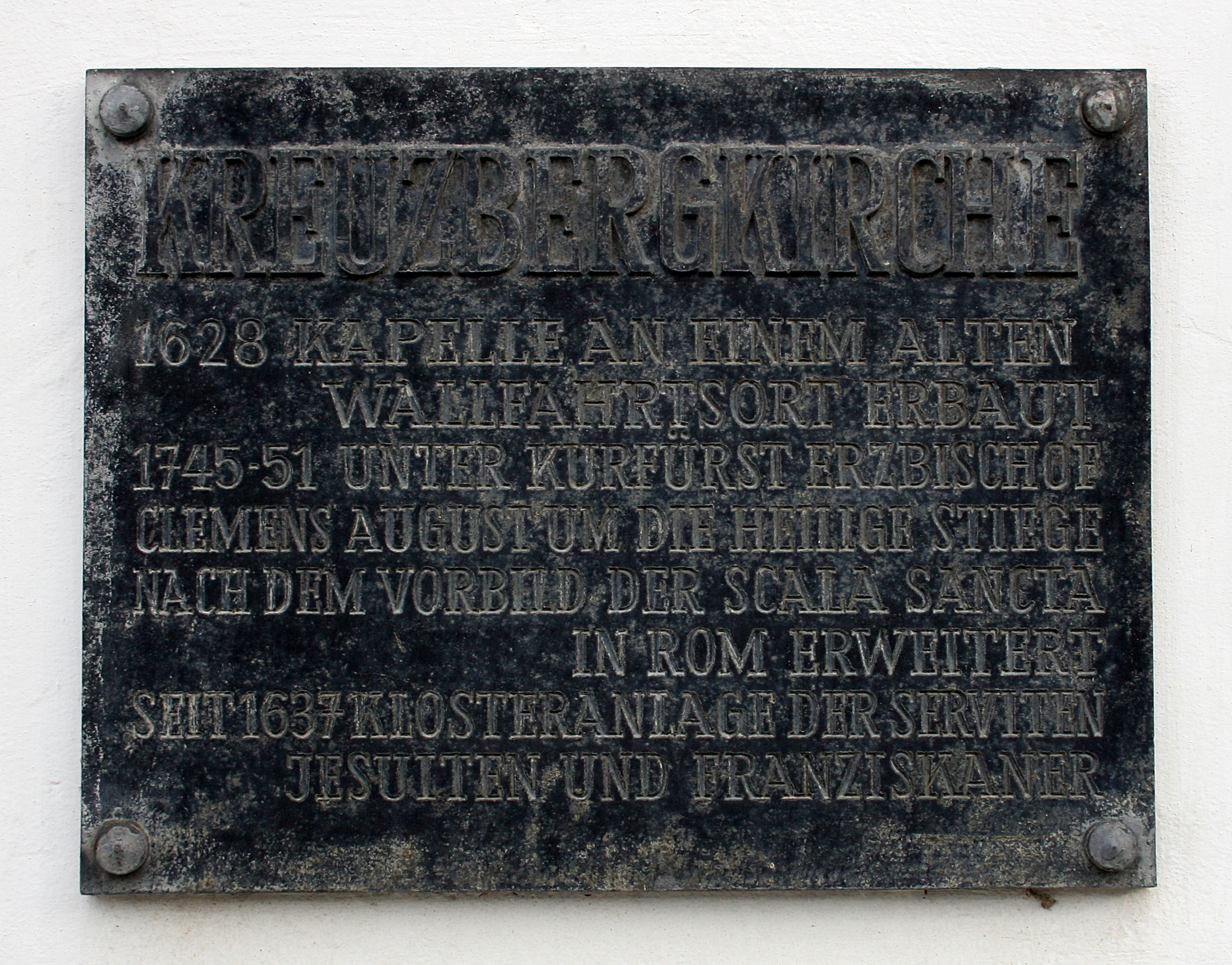 Germany, Bonn: Kreuzberg Church; plaque at the church.